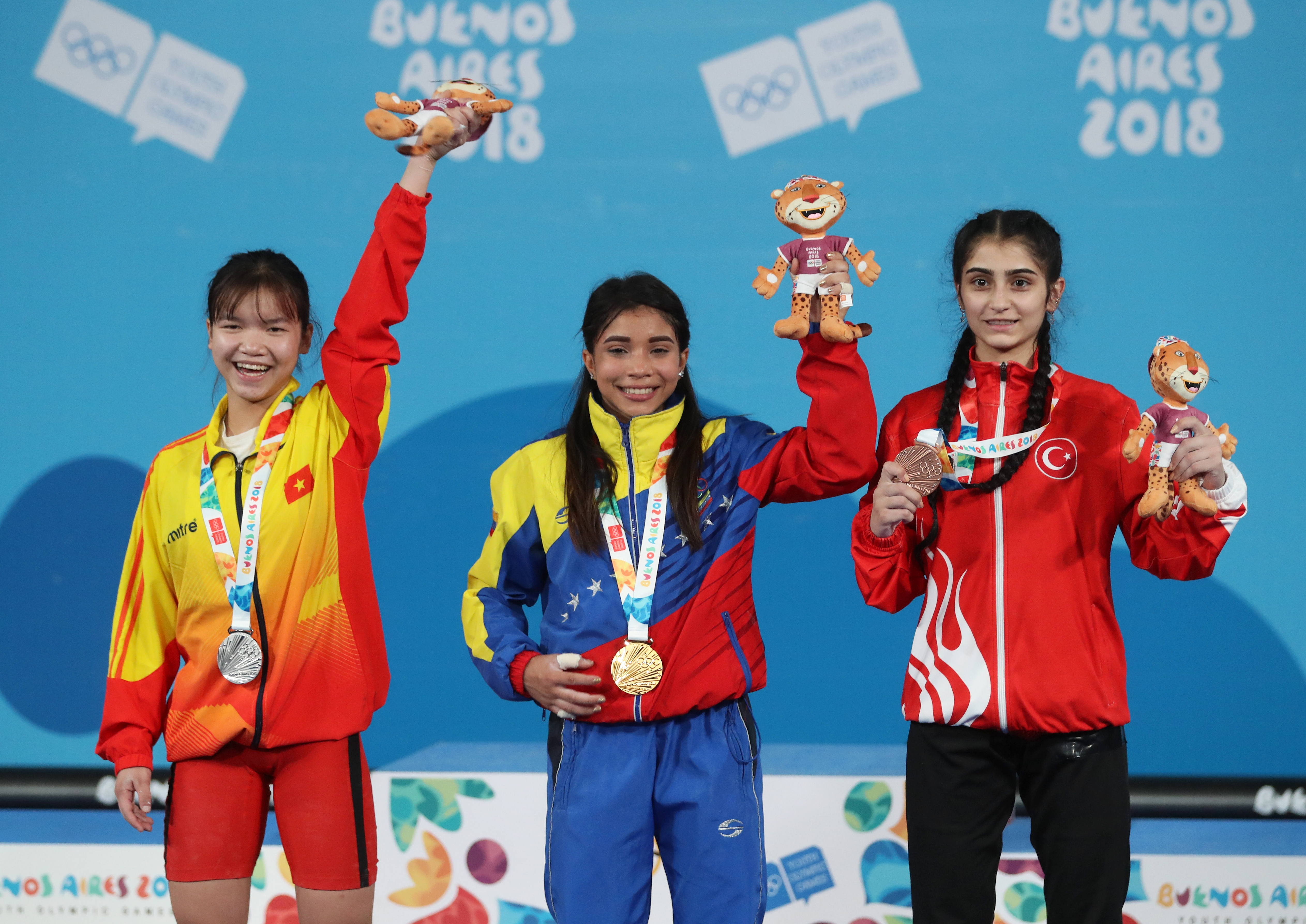 Victory ceremony of the weightlifting girls' 44 kg at the 2018 Summer Youth Olympics in Buenos Aires on 7 October 2018.